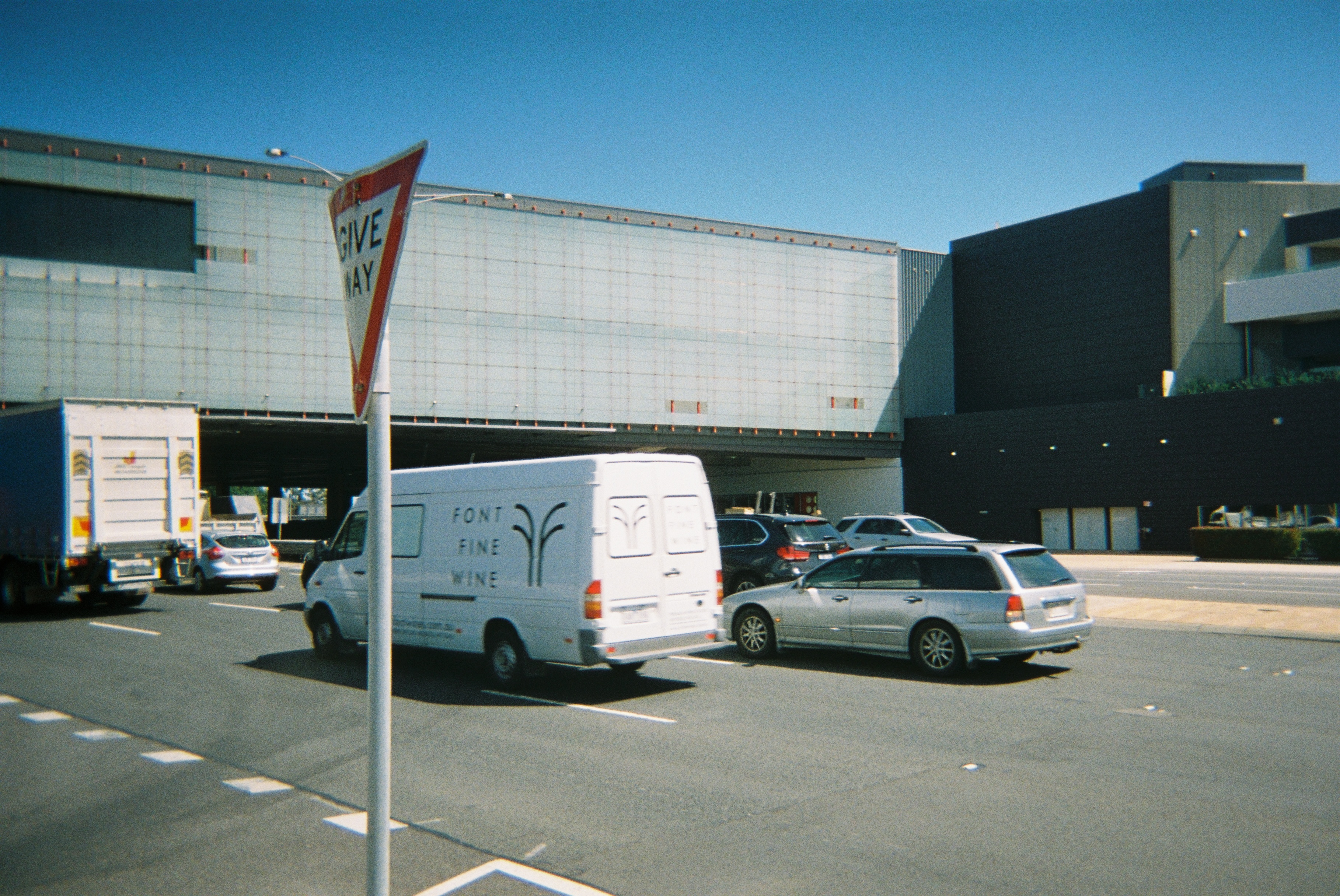 Southland which was painted gray.